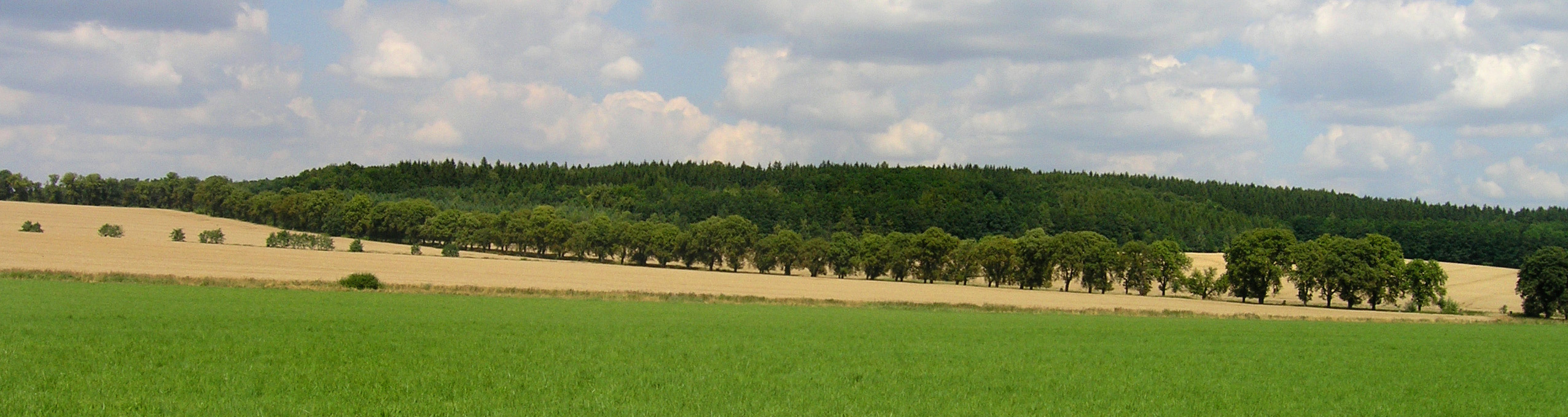 Landscape with horse-chestnut avenue by Lhota, Czech Republic